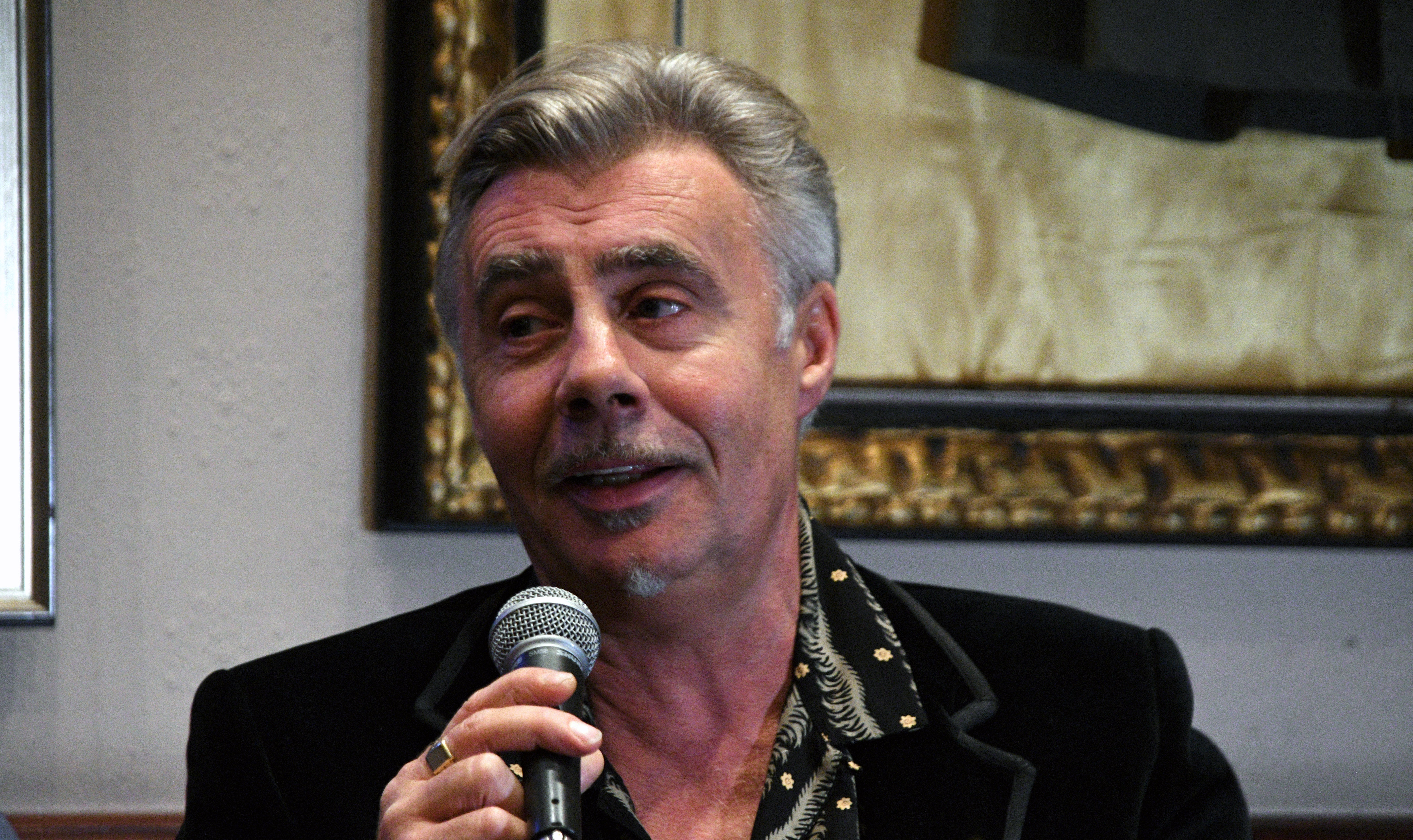 Glen Matlock live in Rome at Hard Rock cafe